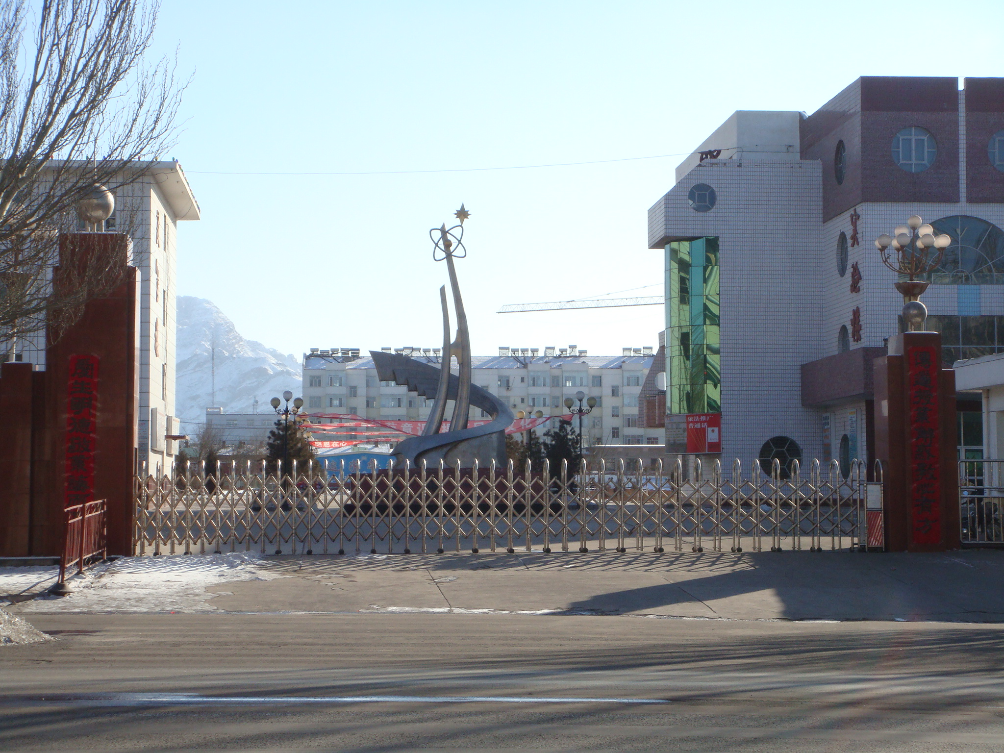 Wuhai No.1 Middle School